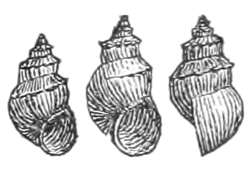 Drawing of two apertural views and one lateral view of the shell of Pyrgophorus spinosus.